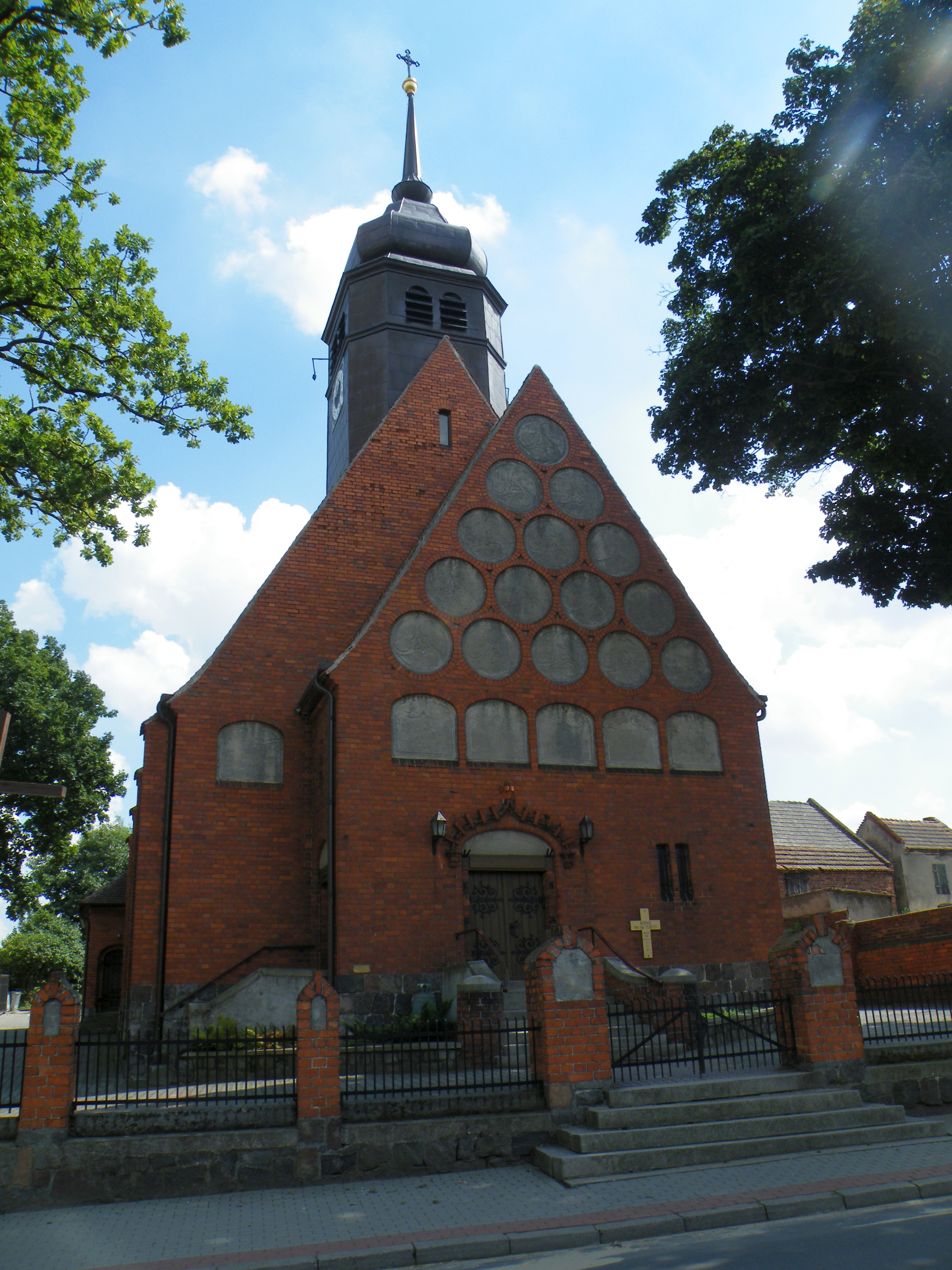 St. Therese of the Child Jesus church in Stare Bojanowo